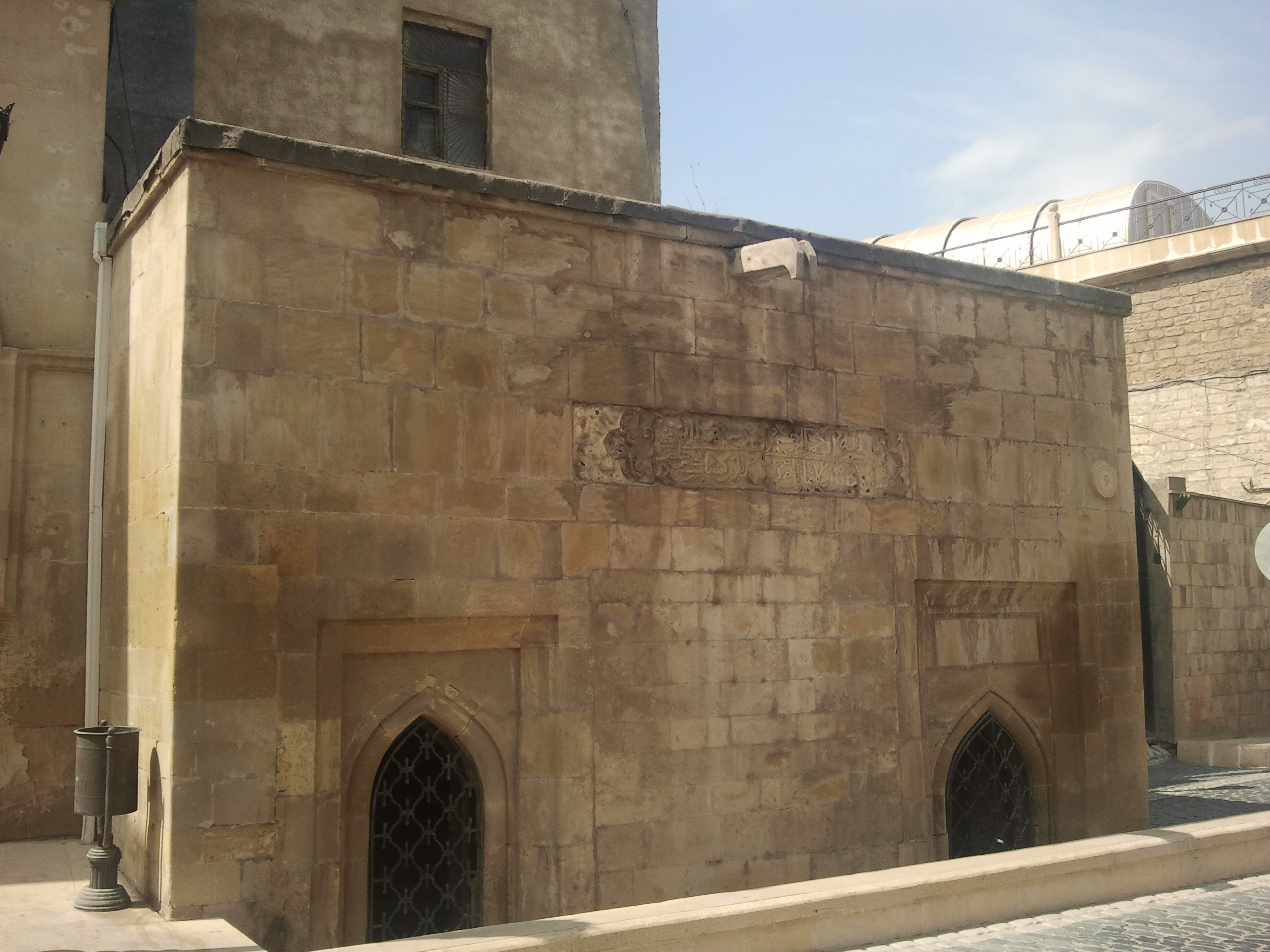 Molla Ahmed mosque. Built in the 14th century.